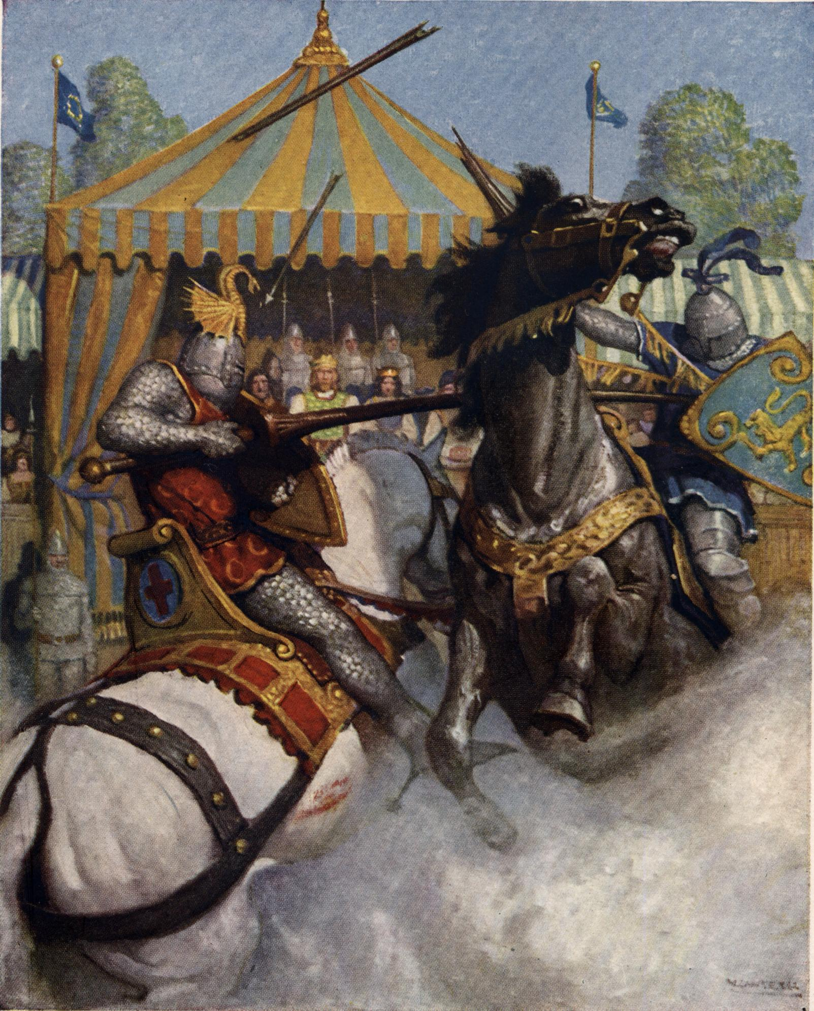 Illustration from page 246 of The Boy's King Arthur: "Sir Mador's spear brake all to pieces, but the other's spear held."